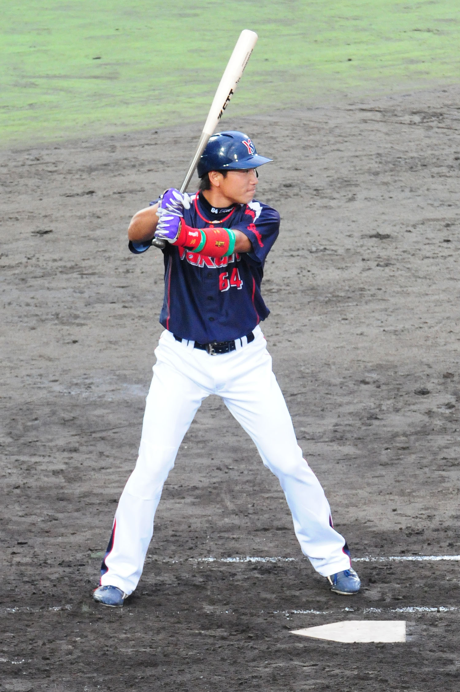 Nariaki Kawasaki, outfielder of the Tokyo Yakult Swallows, at Akita Prefectural Baseball Stadium.